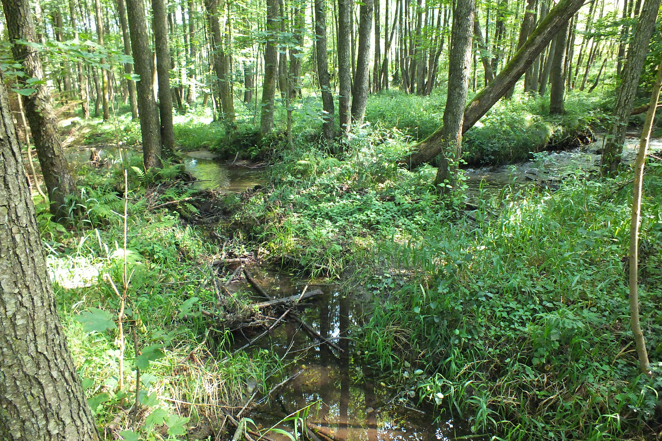 Zelenský luh, nature reserve in the Šumava mountains, the Czech Republic.